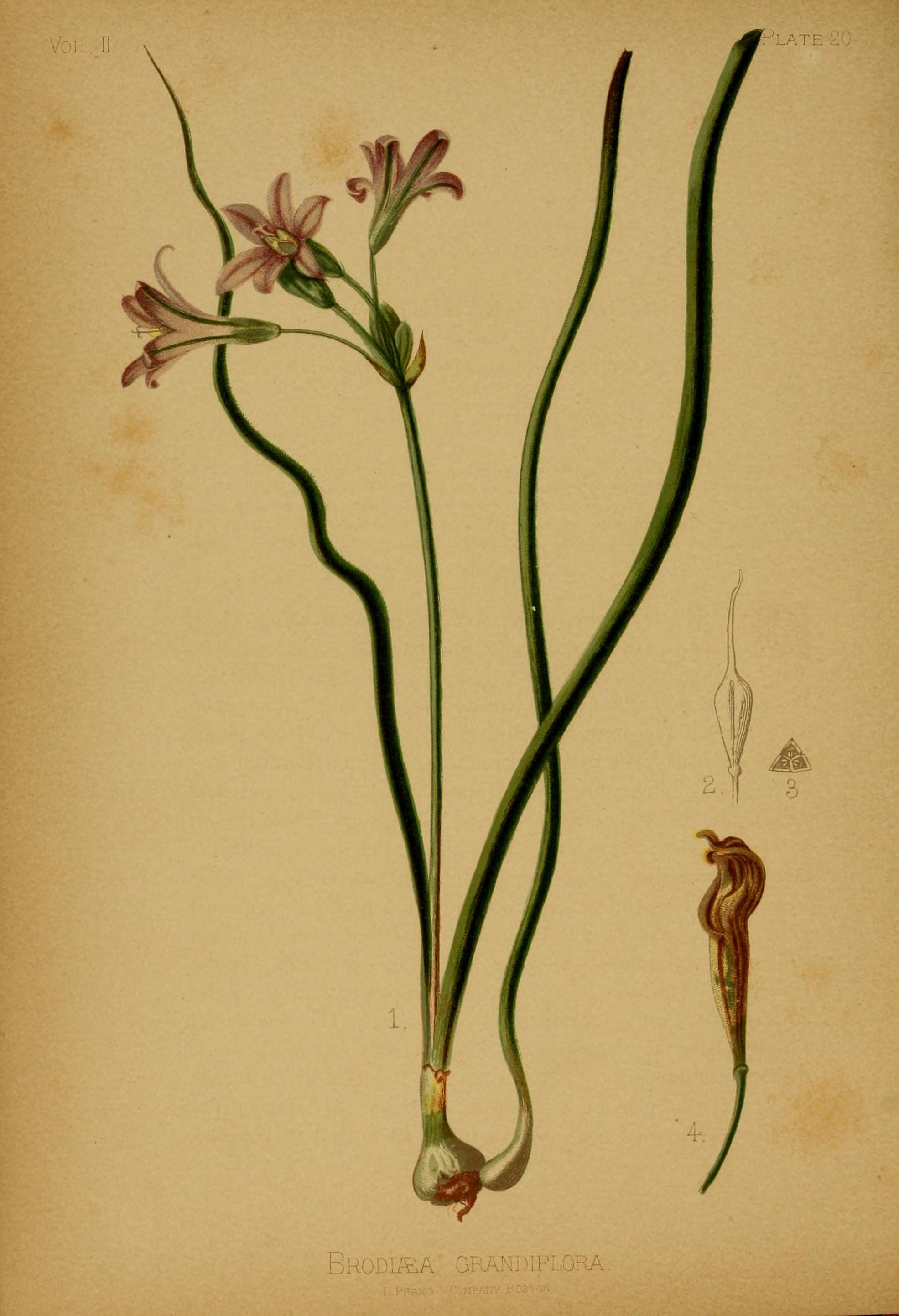 Title: The native flowers and ferns of the United States in their botanical, horticultural and popular aspects Year: 1879 (1870s) Authors: Meehan, Thomas, 1826-1901 Subjects: Wild flowers -- United States Ferns -- United States Publisher: Boston : L. Prang and Co. Text Appearing Before Image: the motion -wasfound to be so slow that the plates of the stigma never closedentirely before the bee had left the flower. The seed-vessel of our species, seen in section, is a verybeautiful object, owing to the peculiar construction of the axileplacentae, and the manner in which the seeds are attached tothem. We give an outline drawing of such a section in Fig. 4.The construction of these placentiE varies in the several speciesbelono-ino- to the enus Mimuhis, but it is always worth exam^-ining. The geographical range of James Monkey-Flower is given inDr. Grays Synoptical Flora of North America as extendingfrom Illinois to upper Michigan and Minnesota, and west tothe Rocky Mountains in Montana, and then south to NewMexico and Arizona. Explanation of the Plate. — i. A young and vigorous plant at its first flowering. — 2. Aseed-bearing branchlet late in the season. — 3 A young seed-vessel, with the style and itsdivided stigma. — 4. Cross-section of a mature seed-vessel. r LATE Text Appearing After Image: pL.. .r;^rr:-n.- r,T